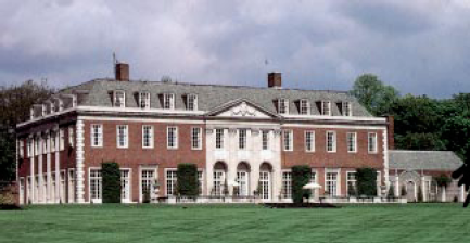 Winfield House, a historic building in London, now used as the residence of the US Ambassador to the UK.